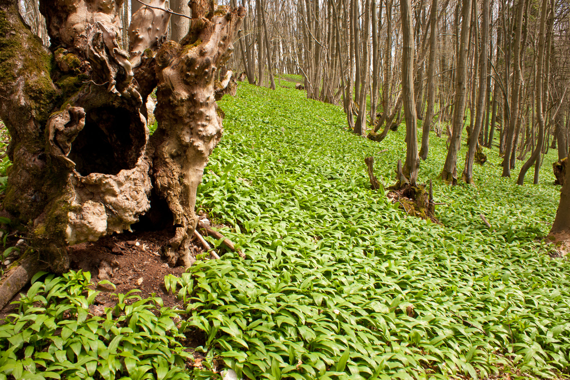 Nature conservation area "Laubmischwald am Hetzleser Berg" in Germany, with large growth of Allium ursinum